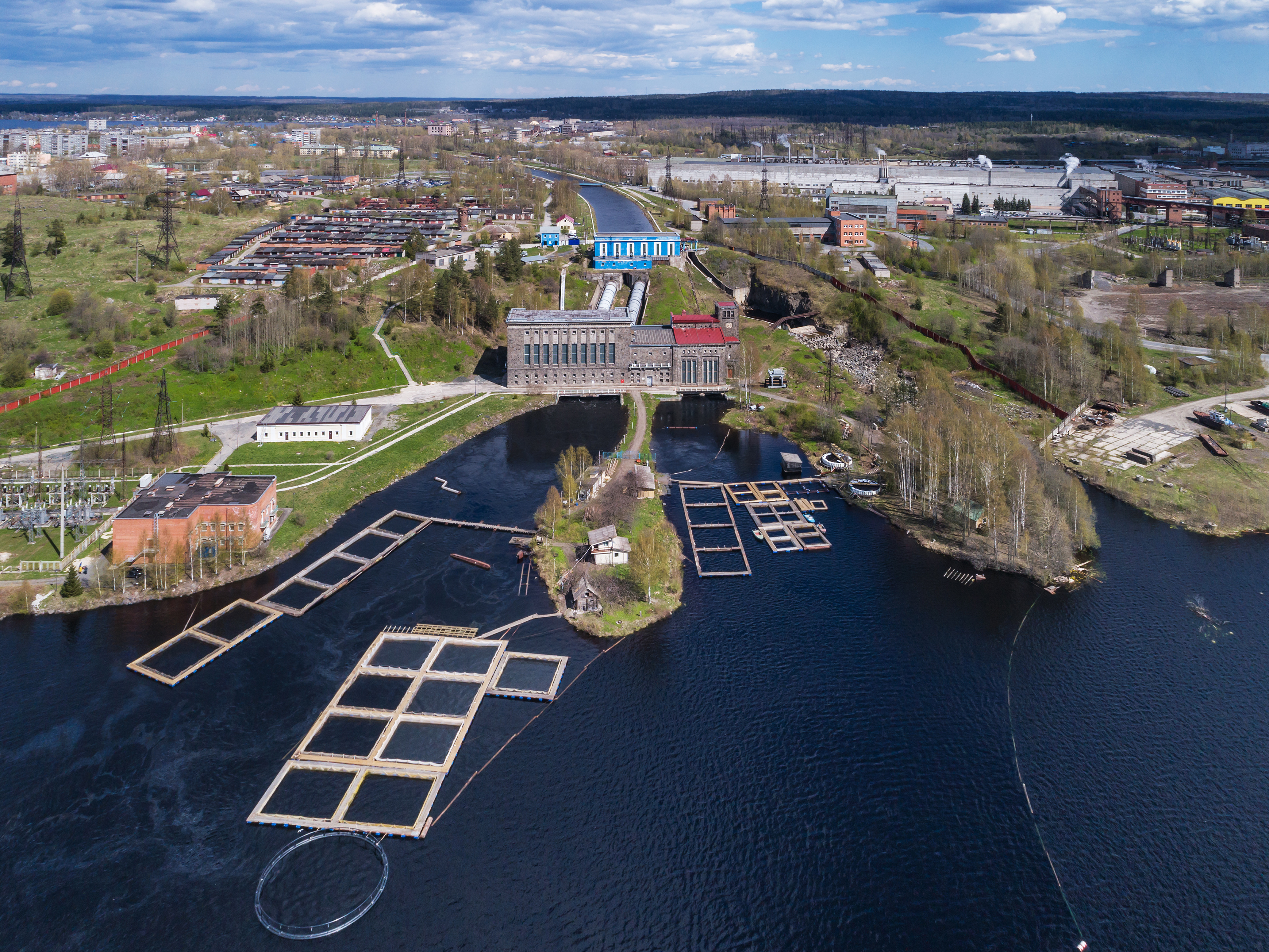 Aerial photo of the HPP in Kondopoga, Republic of Karelia (Russia).